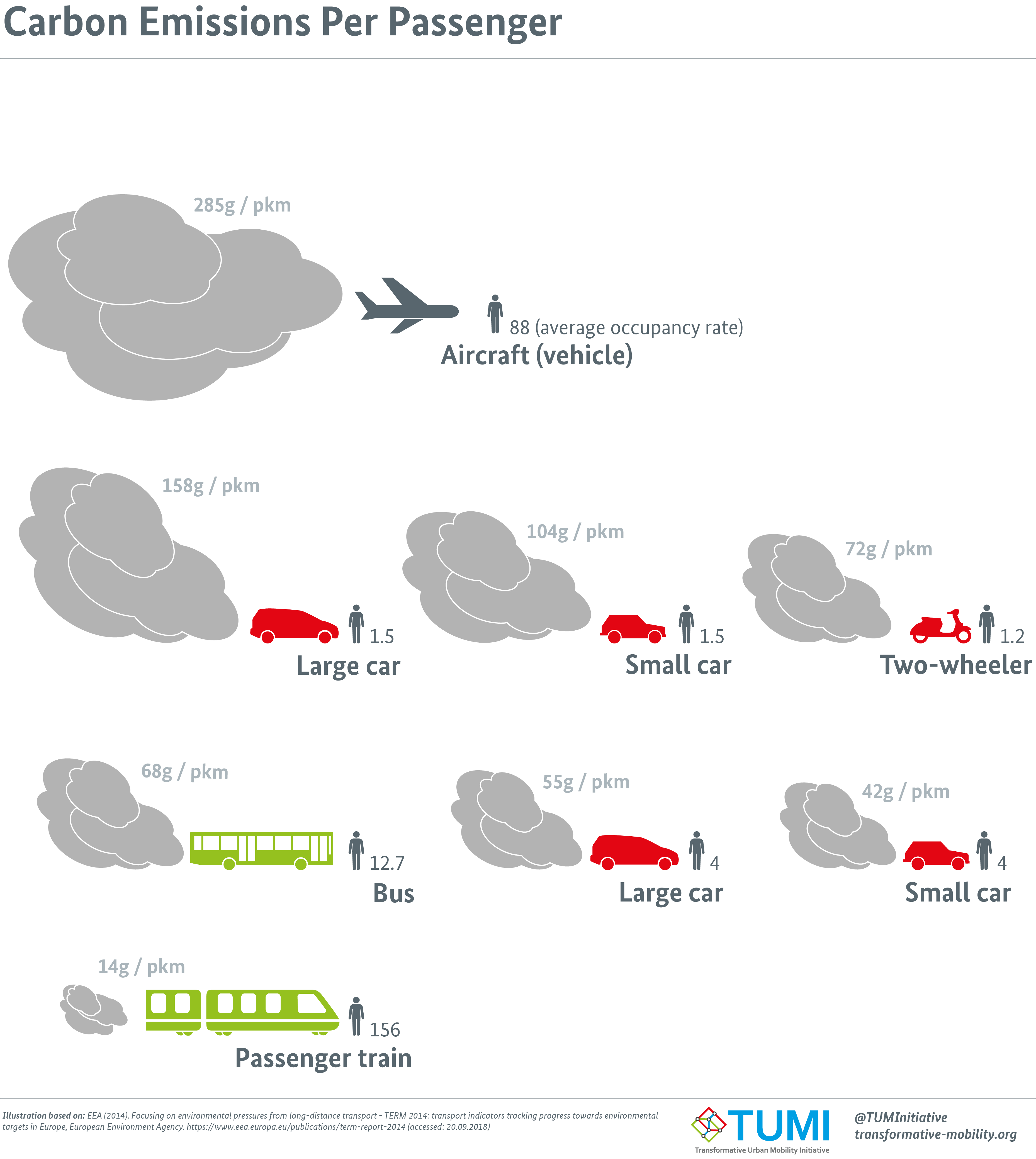 Carbon Emissions Per Passenger (g / pkm) Aircraft Large car Small car Two wheeler Bus Train